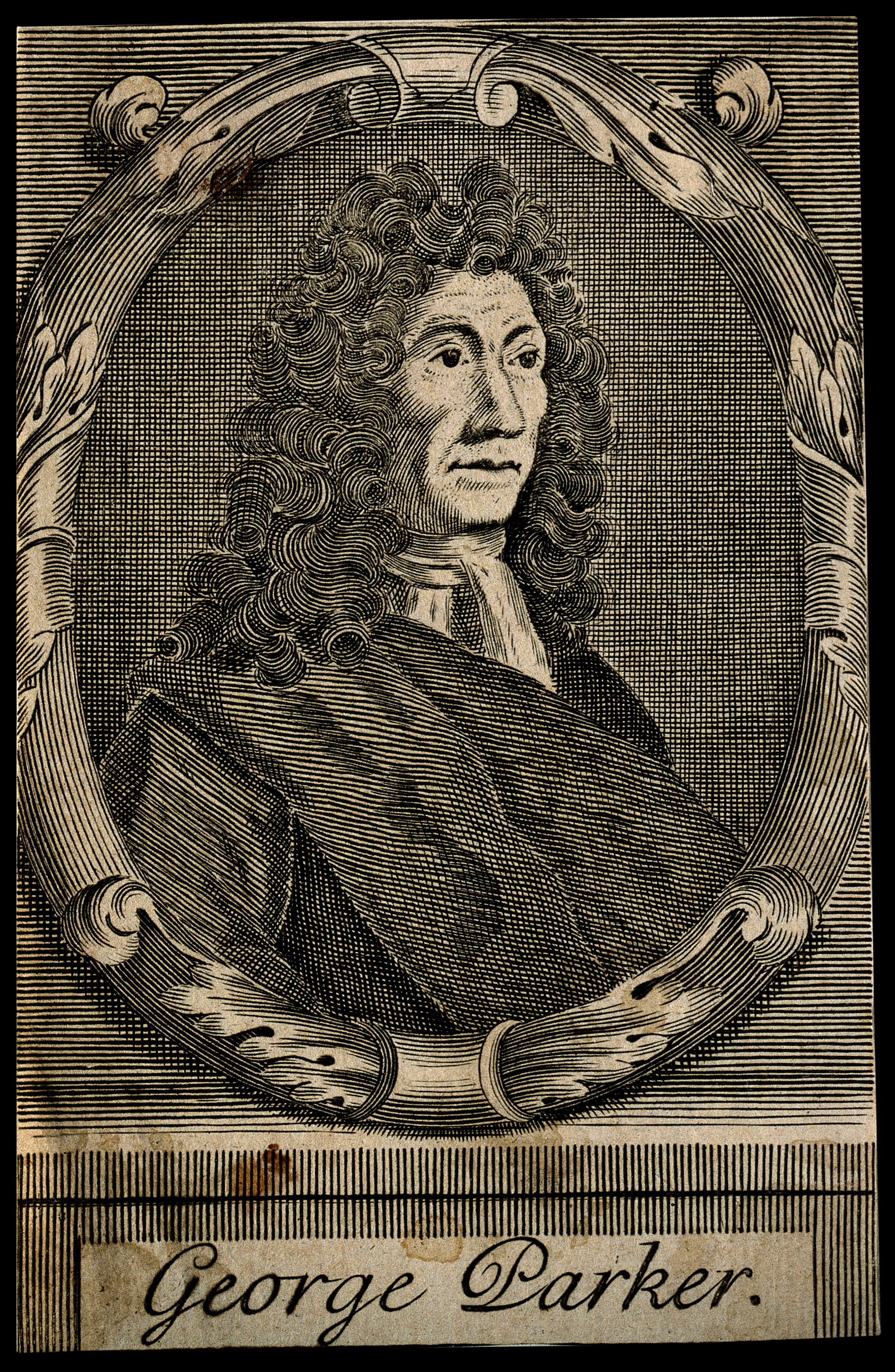 George Parker. Line engraving by J. Nutting. Iconographic Collections Keywords: portrait prints; George Parker; engravings